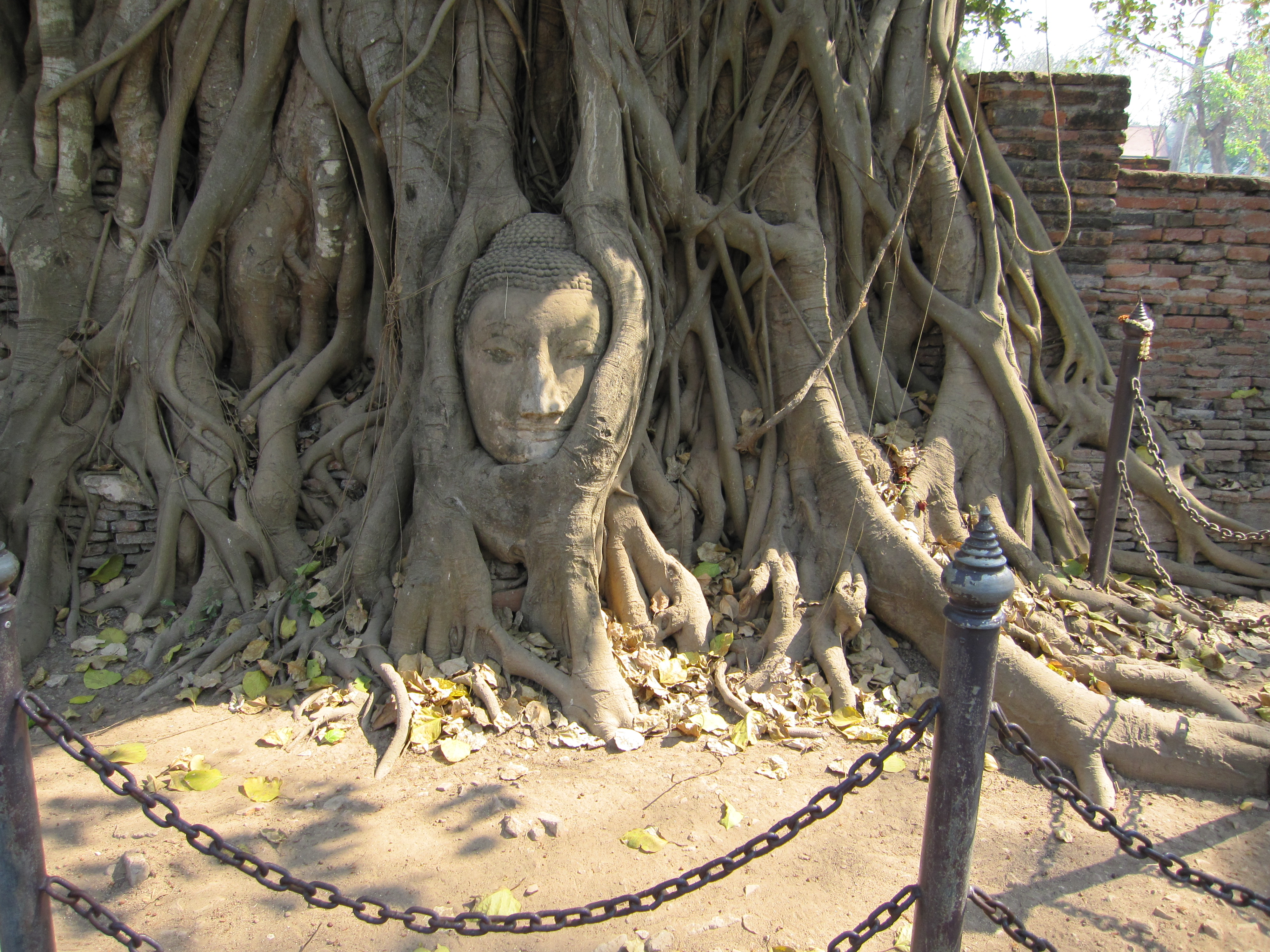 This head of Buddha is covered with roots of a tree.